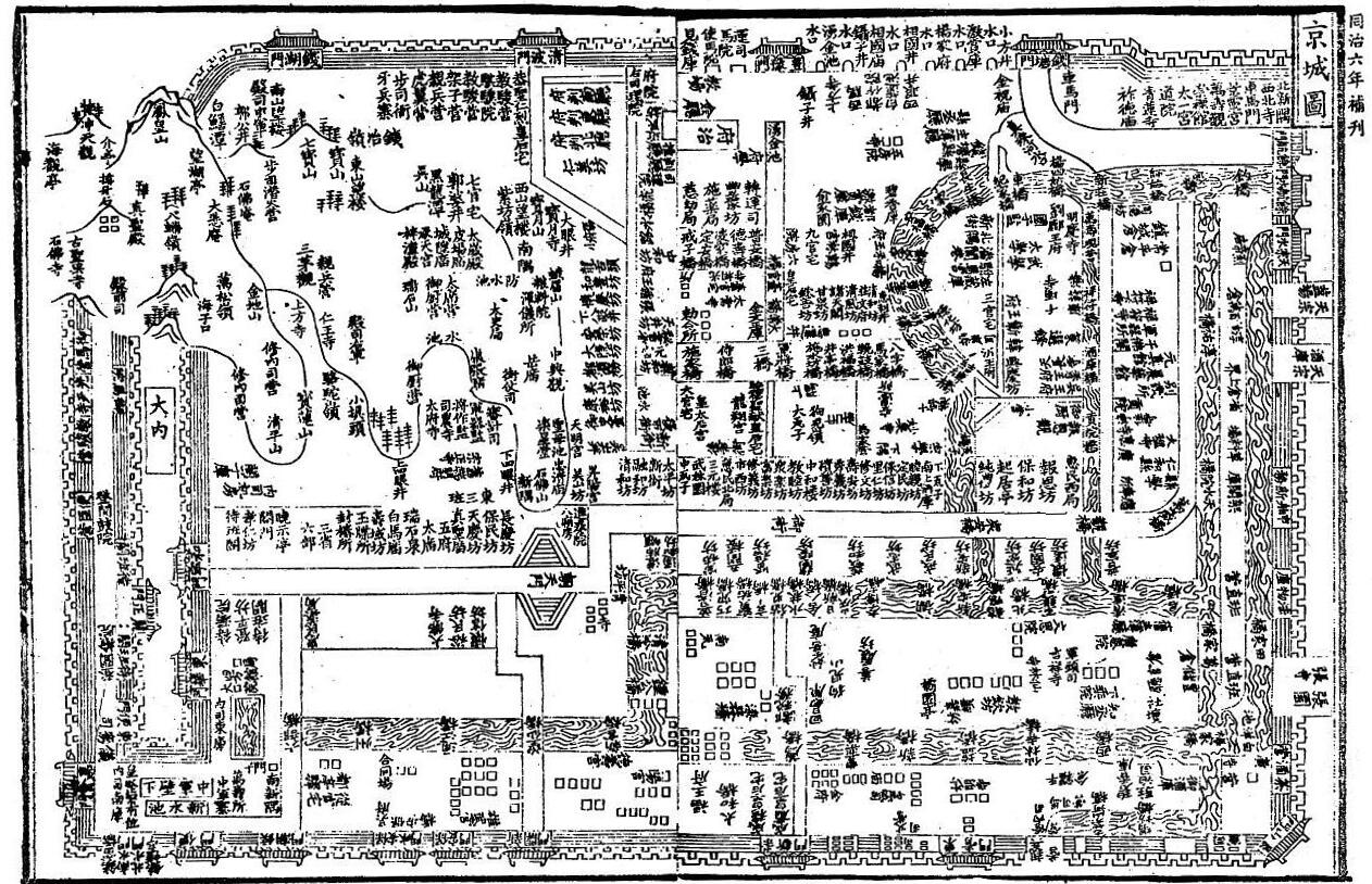 Hangzhou Castle Area map in 1867, Traditional Chinese edition